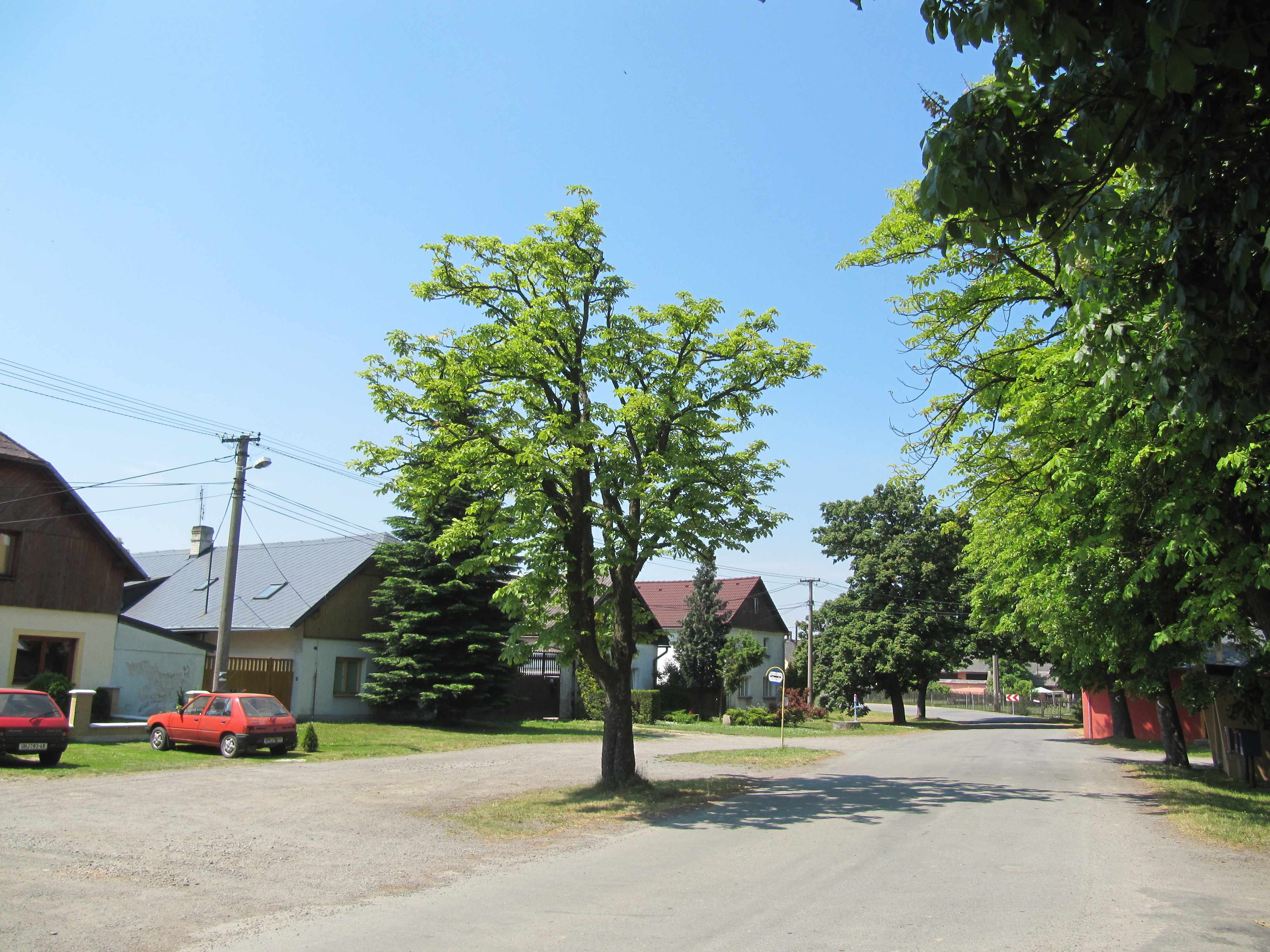 Vítkov, Opava District, Czech Republic, part Jelenice.